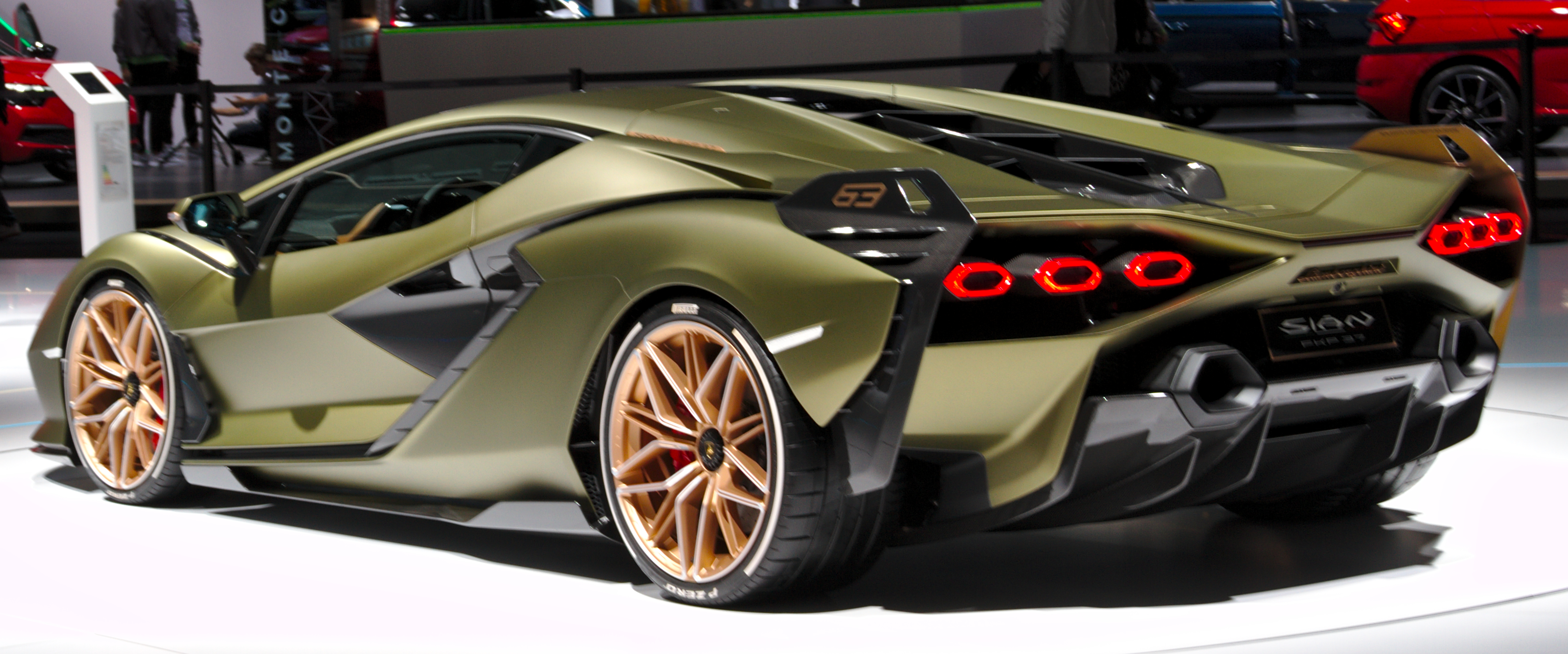 Lamborghini_Sian at IAA 2019